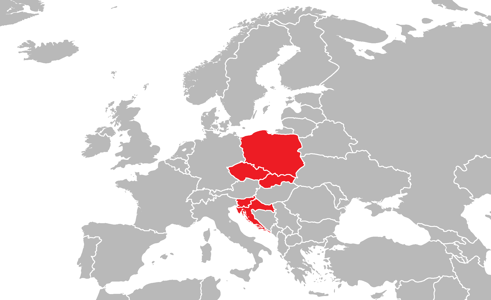 Map of Catholic Slavic countries for Catholic Slavs article